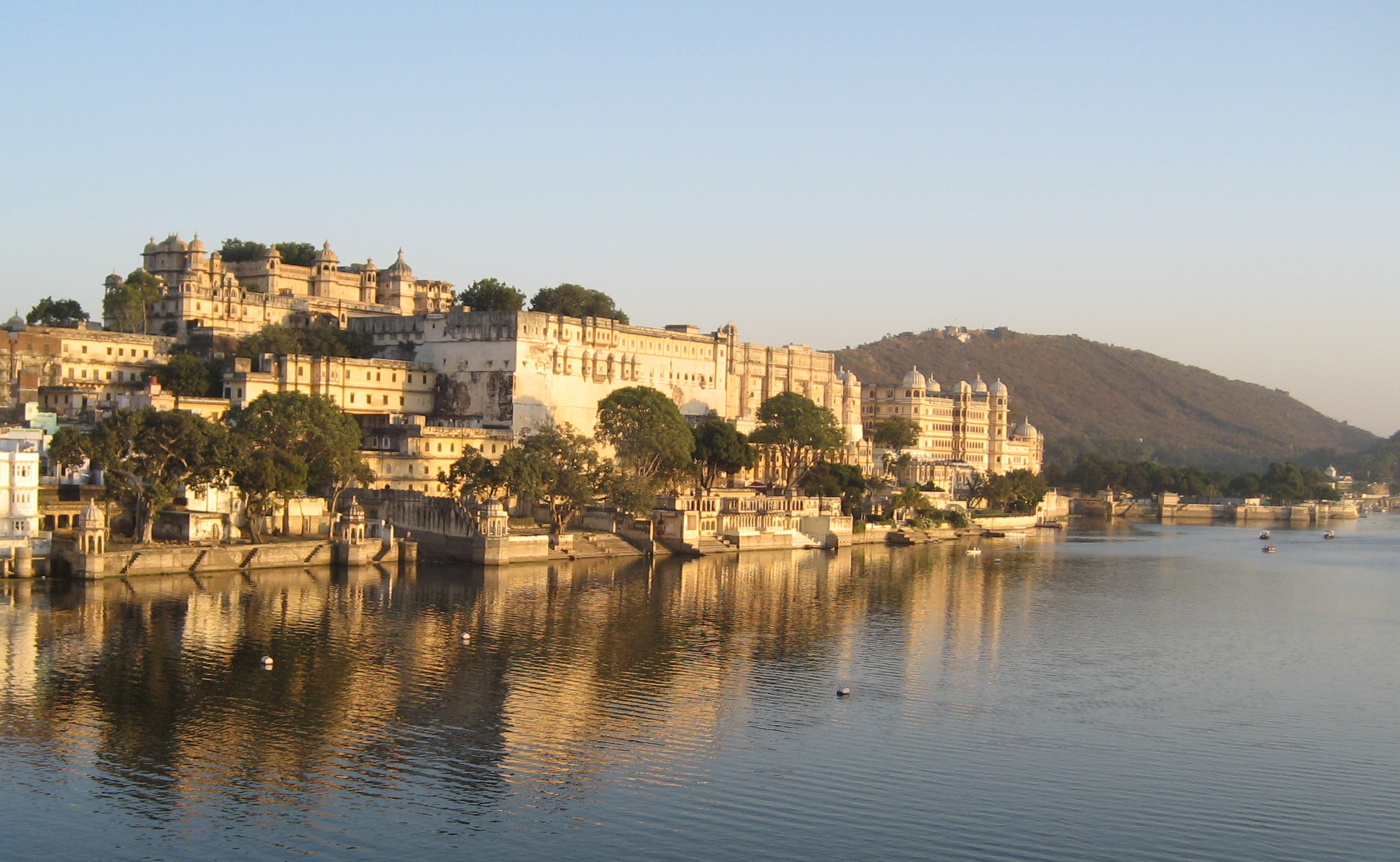 the view across lake pichola